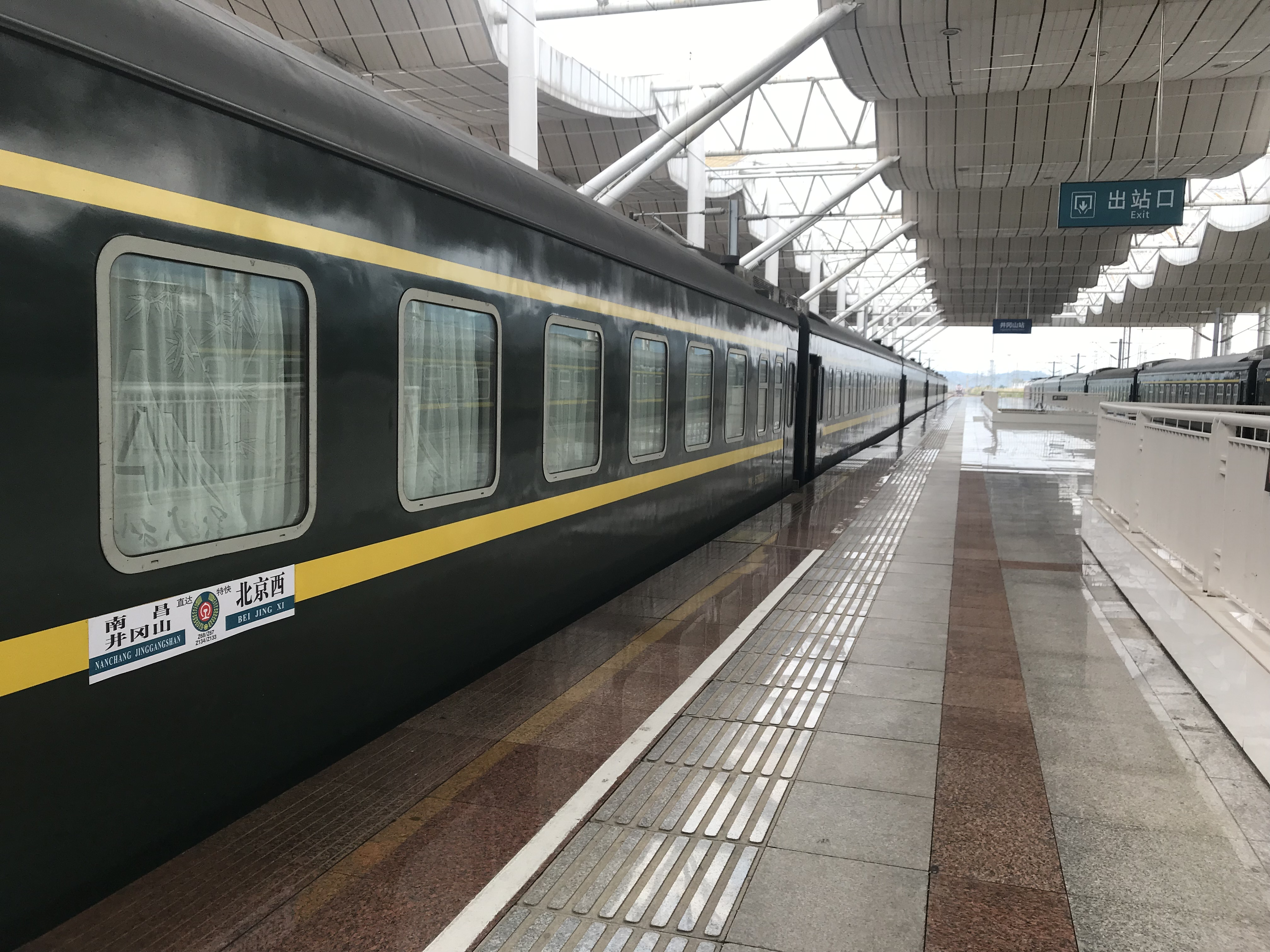 Z134 Jinggangshan to Beijingxi